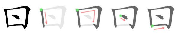 This ㄖ-bw.png image depicting the stroke order of the character ㄖ in bw.png style. This image is part of the Commons:Stroke Order Project(zh-de-ja), a project to create a complete set of images depicting the right stroke order (Protocols).The 214 Kangxi radicals have been completed. We currently work on the most frequent characters. Help is welcome.